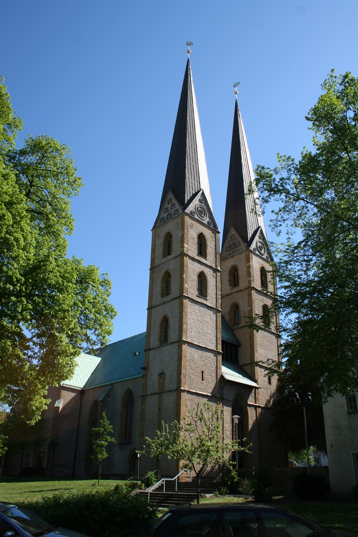 Towers of westwork of St. Mary's Church in Bielefeld, North Rhine-Westphalia, Germany